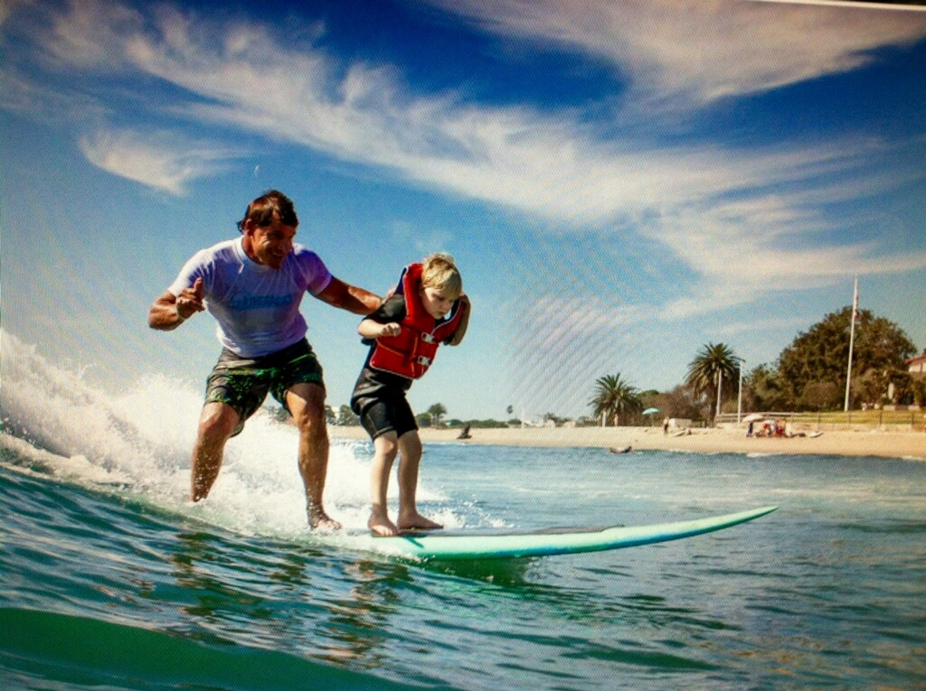 Sarlo Surfing in 2013